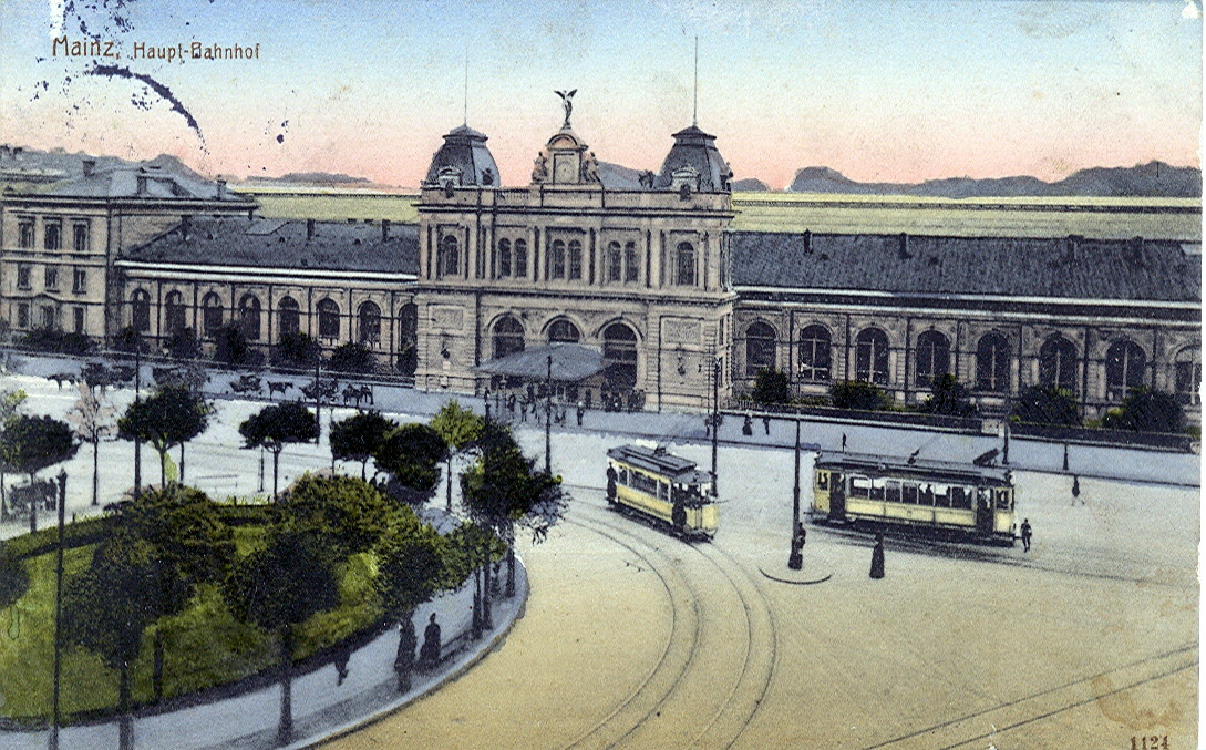 Postcard, dated 31.4.1913. Title: "Mainz - Central station"